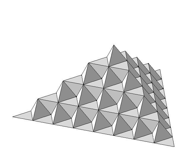 Third iteration of Koch (triangle) surface